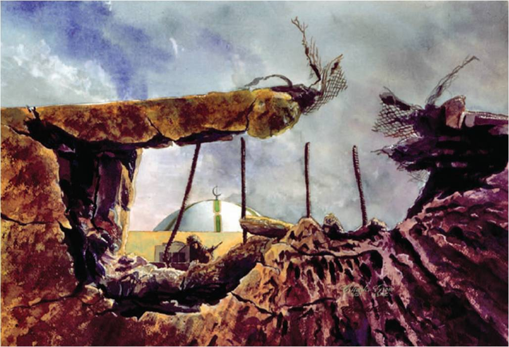 Marines of 3rd Battalion, search for Iraqi stragglers and examine damage following the Battle of Khafji.